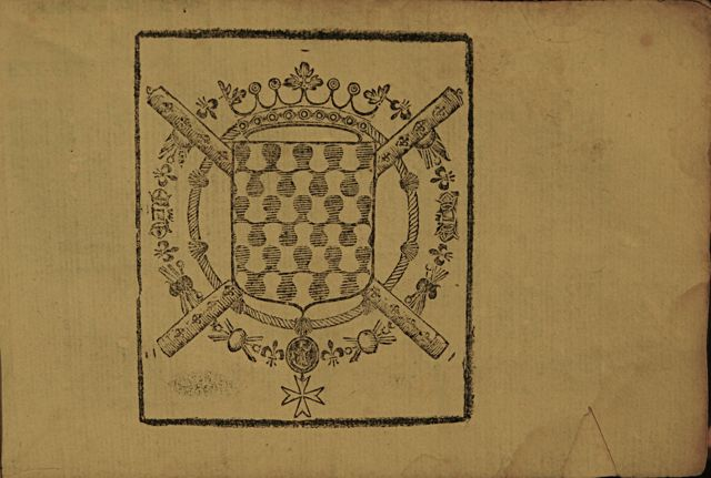 Own picture of the book Dictionario castellano... Dictionaire françois... Dictionari catala. Barcelona 1642. Author: Pere Lacavalleria (1642)